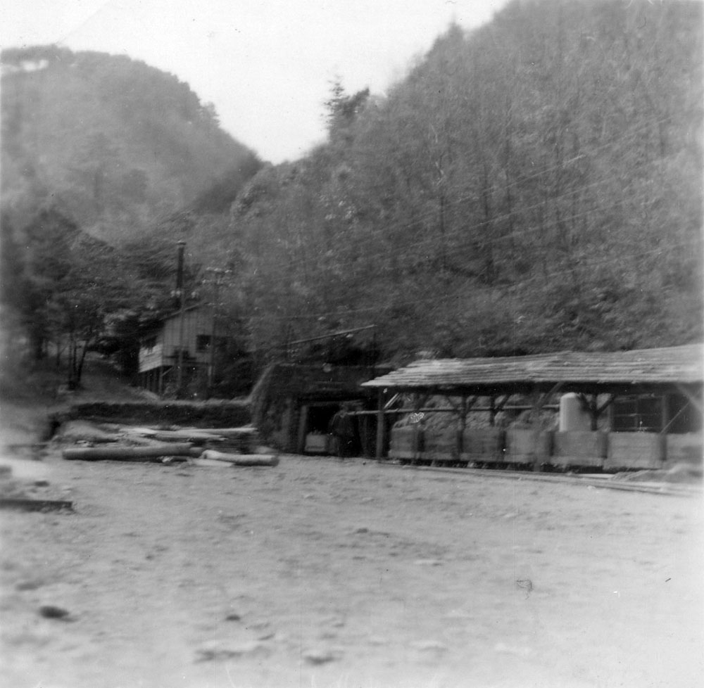 Ohito Mine in Izu, Shizuoka Prefecture, Japan.